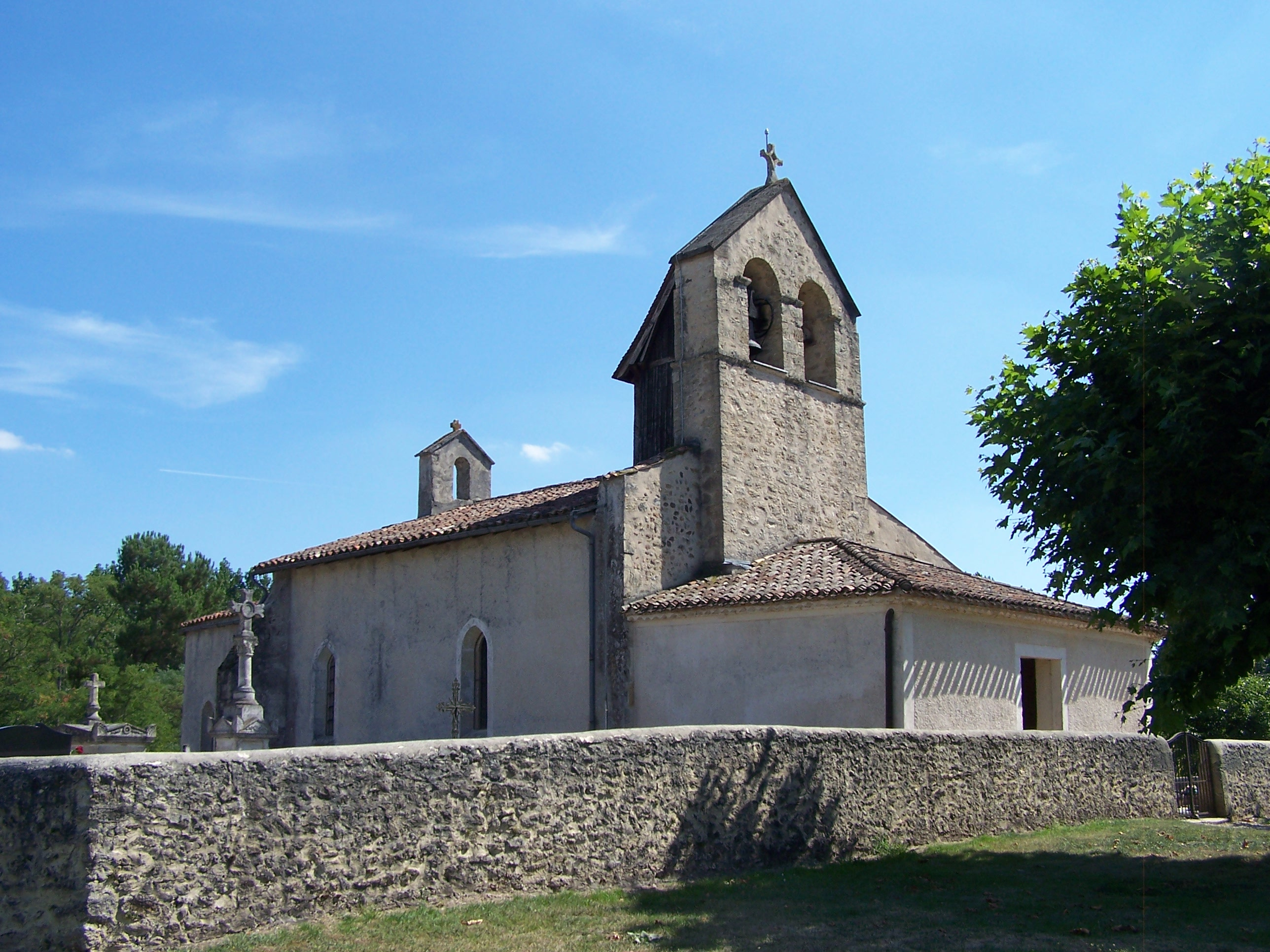 Church of Origne (Gironde, France)